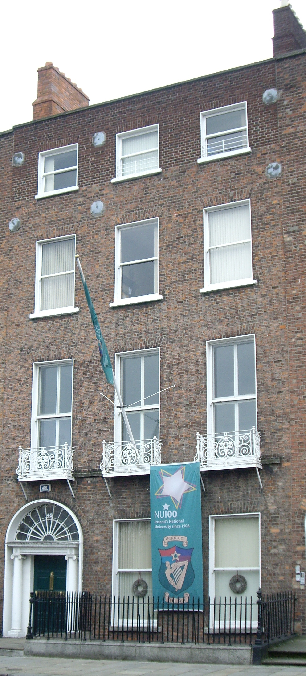 Outside of National University of Ireland office. 49 Merrion Square, Dublin 2. Christmas 2008.